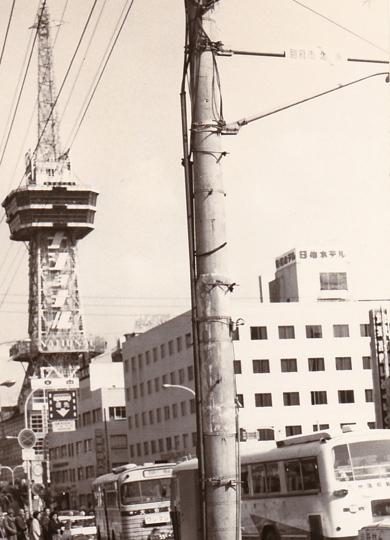 Beppu Tower 1960s